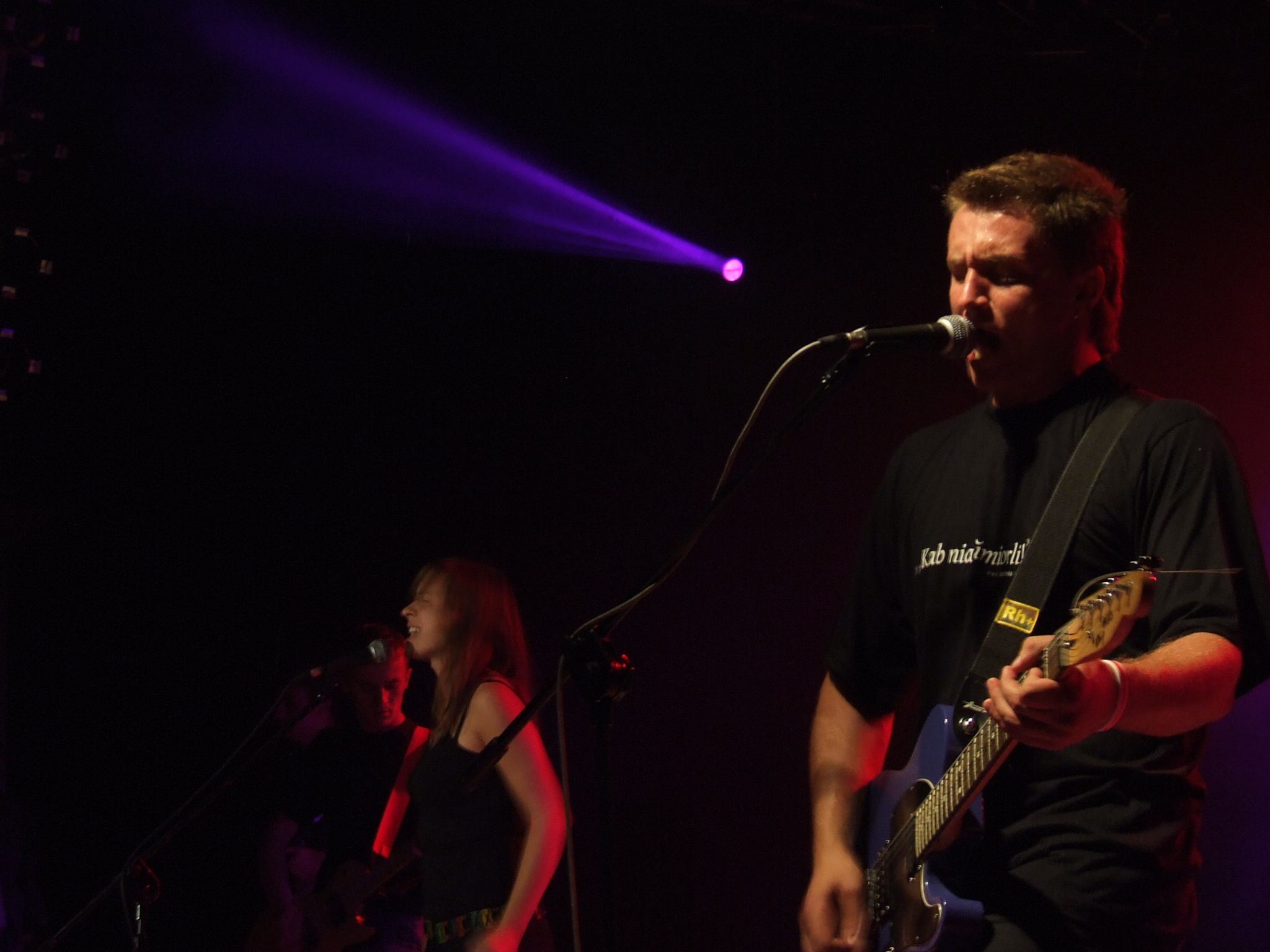 Group :B:N: at Basowiszcza festival 2007.